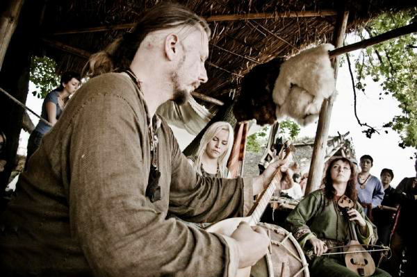 Photo taken in Wolin Festival, 2010, on Percival's concert.